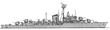 A side rendering of the Split, in an early configuration. Note the light guns as well as the lack of missile batteries.